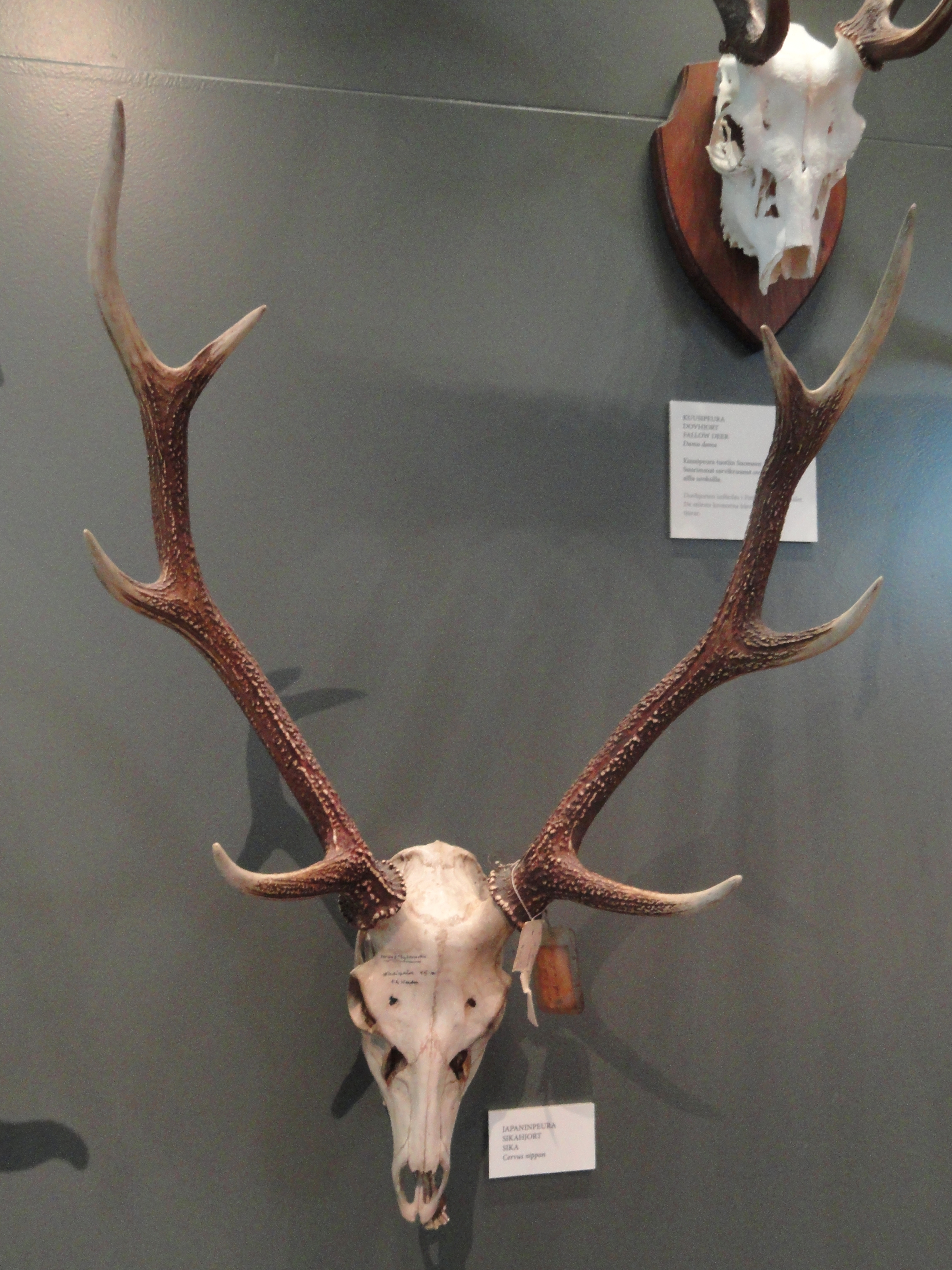 Exhibit in the Finnish Museum of Natural History, Helsinki, Finland.